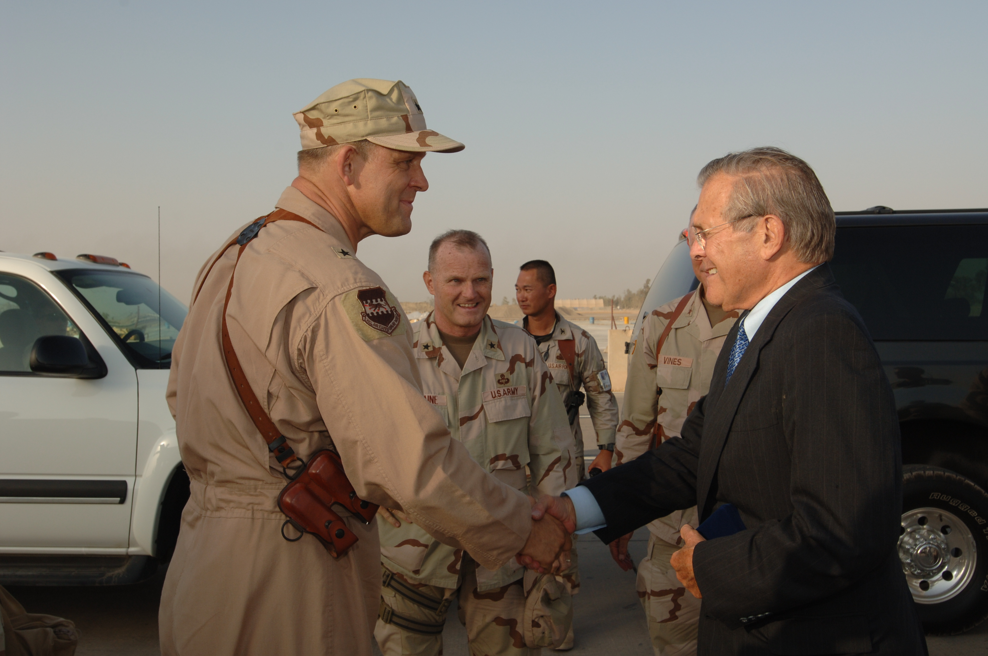 Frank Gorenc shakes hands with Donald Rumsfeld